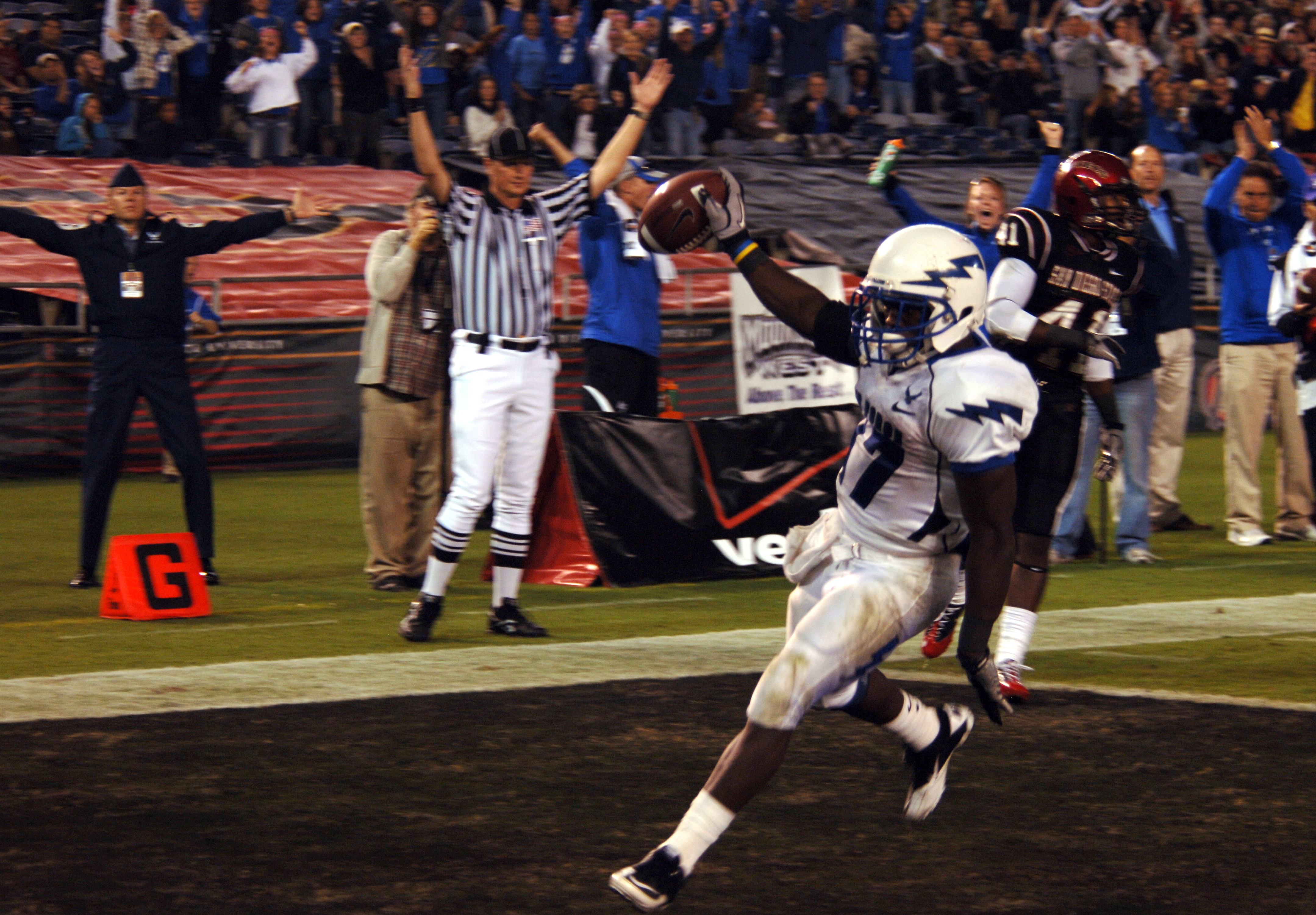 Air Force running back Asher Clark goes in for the touchdown following a 20-yard run, Oct. 16, 2010, at San Diego's Qualcomm Stadium. Clark recorded his second straight 100-yard game with 116 yards on 19 carries. The Falcons lost the game 27-25 to the Aztecs of San Diego State.